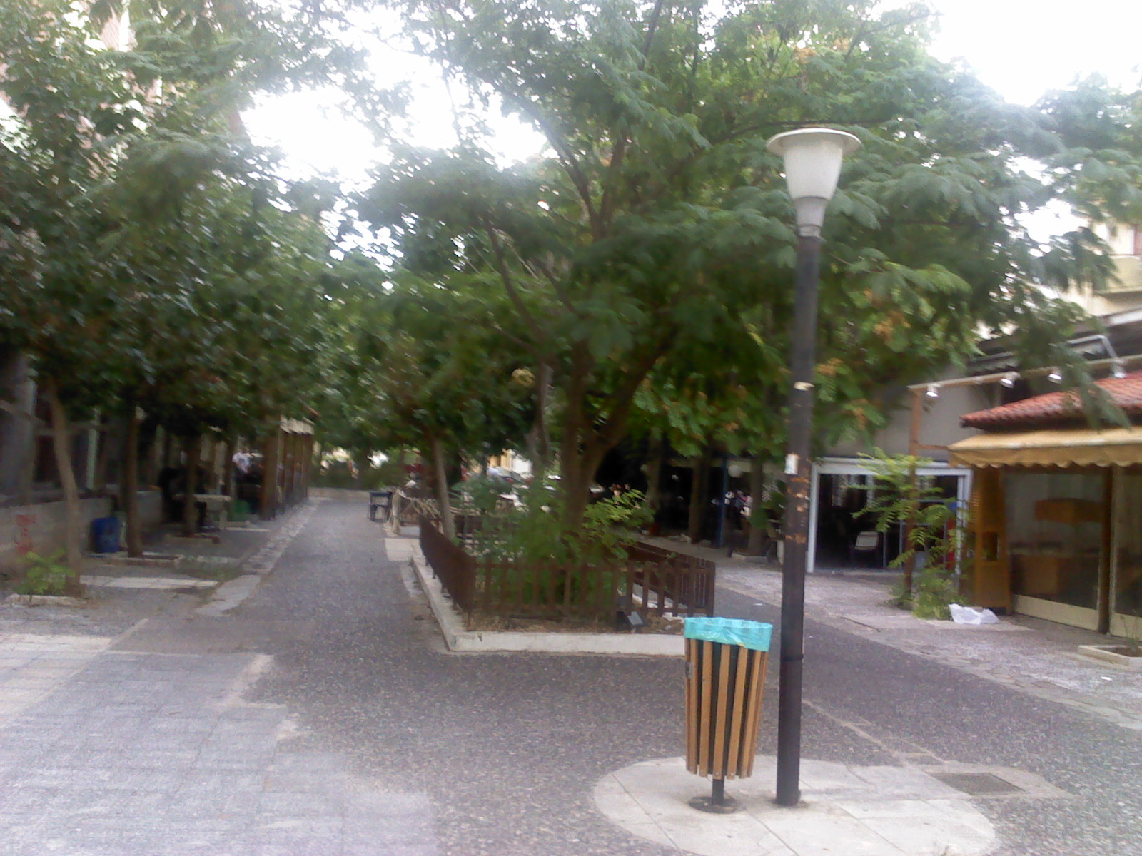 Neighborhood Kopi Pireas